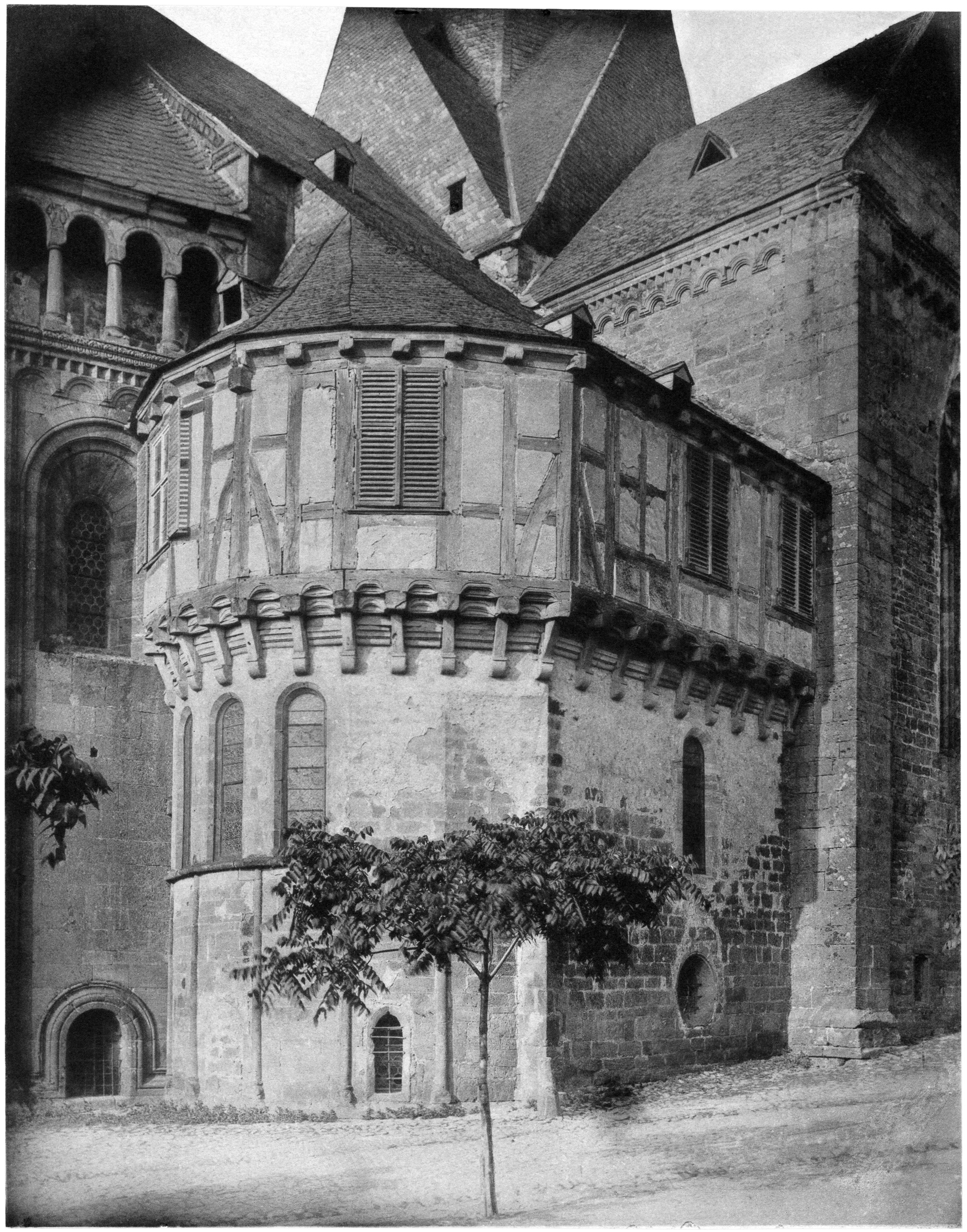 Table 43 / Title on the table: Fritzlar Chapter's Library at the Cathedral c. 1540. / Index title: Fritzlar. Chapter's Library, at the Cathedral (ca. 1540).